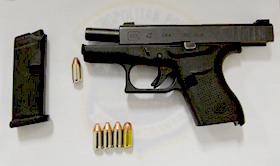 A Glock Model 42, .380 caliber handgun was recovered Thursday, December 28, 2017 from the 500 block of H Street, Northeast. CCN: 17-222-796